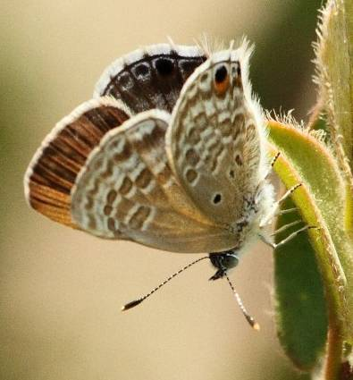 Otacilia hairtail Anthene otacilia otacilia. West of Qudeni, KwaZulu-Natal. LepiMAP record no. 21328